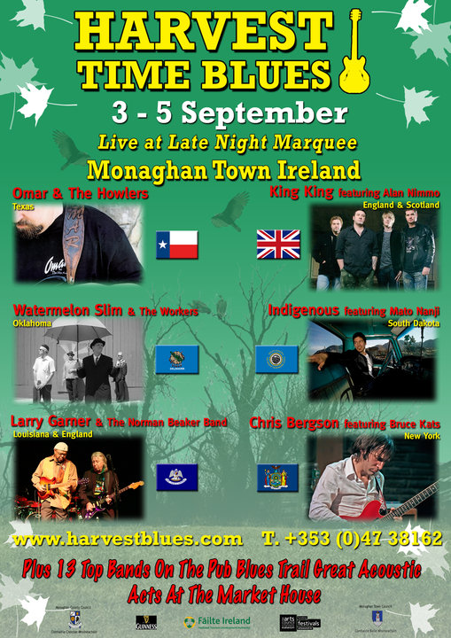 Poster for this years festival